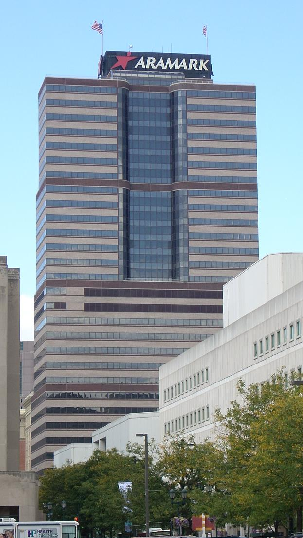 Aramark Tower in Philadelphia, Pennsylvania The picture was taken from 8th Street near Market Street